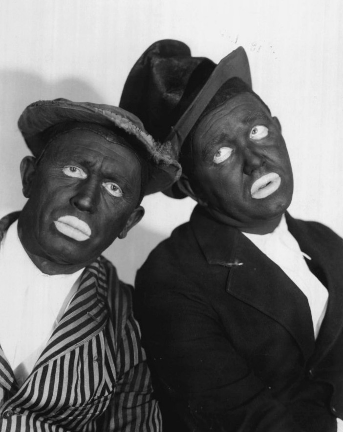 Photo of Charles Mack and George Moran as the "Two Black Crows". The comedy team performed this act in vaudeville, on radio and records and in films.